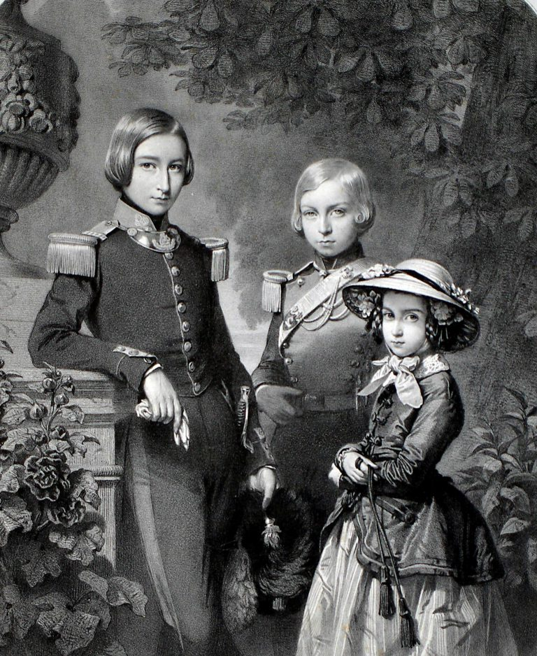 Le Duc de Brabant, Le Comte de Flandre and La Princesse Charlotte, children of the first Belgian, king Leopold the First (1790-1865) and of Marie-Louise d'Orleans (1812-1850), daughter of Louis-Philippe, King of France. The duke of Brabant is the future Leopold the Second (1835 - 1909), his brother Prince Philippe, Count de Flandre (1837-1905) and his sister the Princess Charlotte (1840-1927), the future Empress of Mexico.